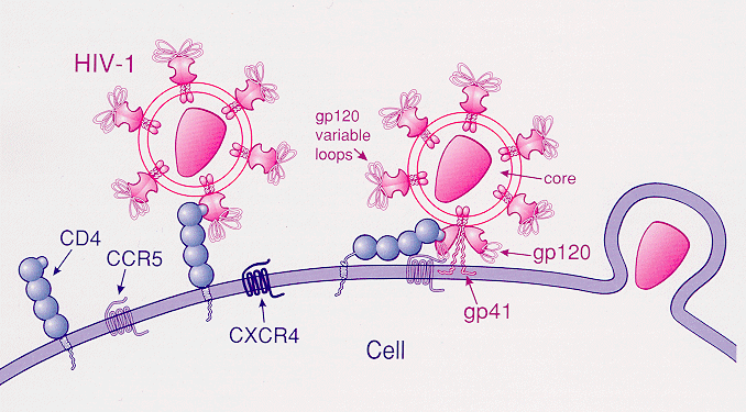 HIV attachment process Legend: Attachment from the gp120 loop to the CD4+ receptor Attachment of a variable from the gp120 to a co-receptor (CCR5 or CXCR4) and fixation of the gp41 to the cellular membrane Invading of a HIV viron into the cell